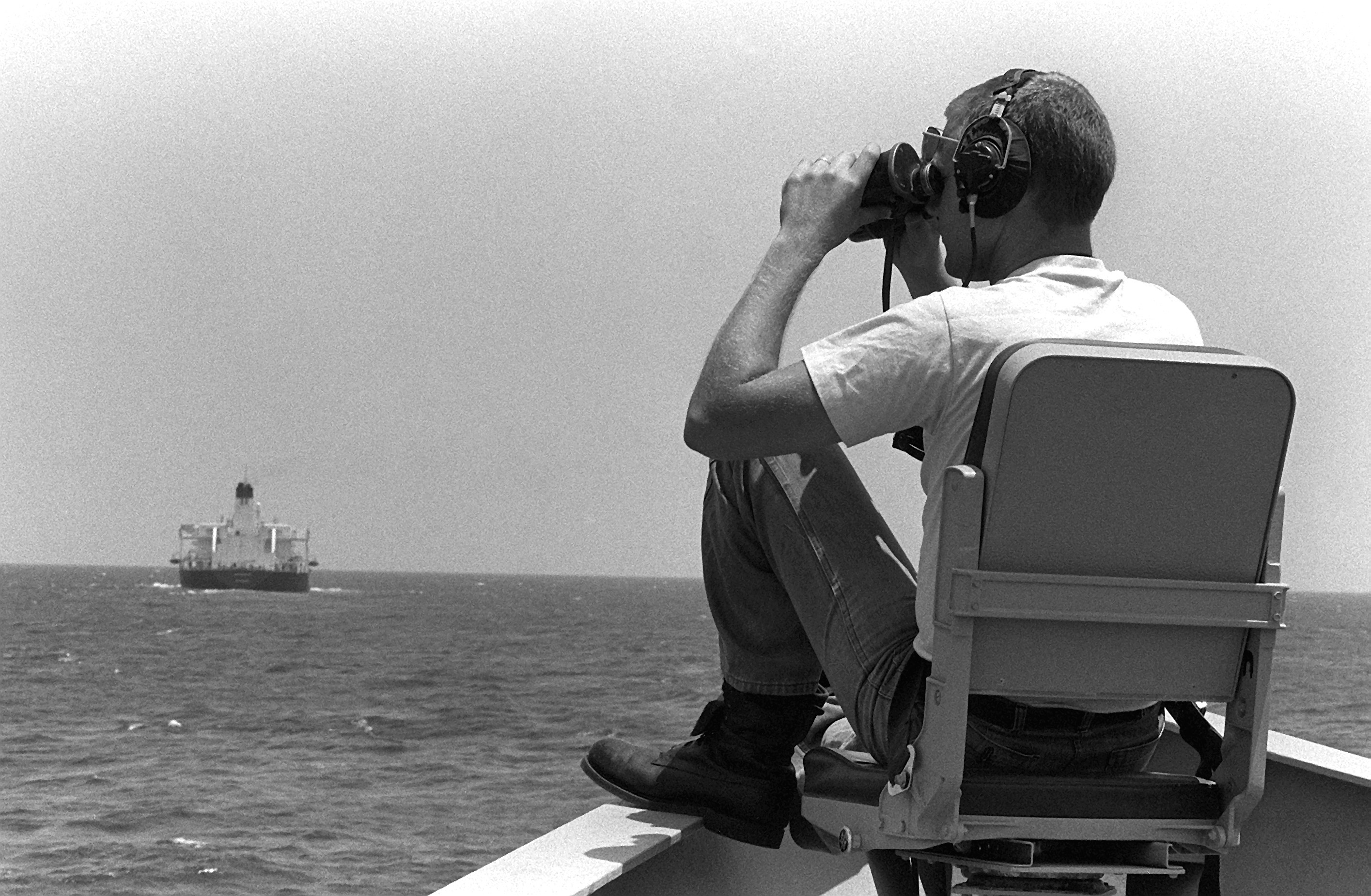 Mess Management Specialist 2nd Class Williams Hendrickson scans for mines from the bow of the guided missile frigate USS Nicolas (FFG-47) during an Operation Earnest Will convoy mission, in which tankers are led through the waters of the Persian Gulf by U.S. warships.